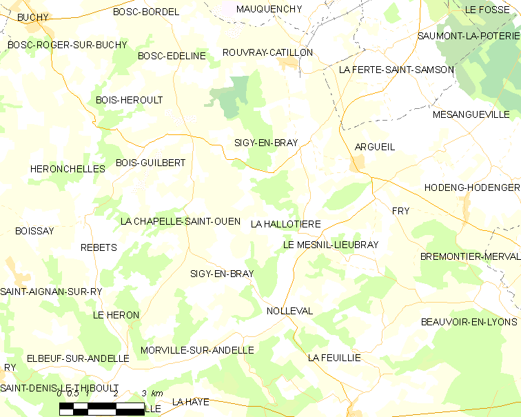 Map of French municipality Sigy-en-Bray